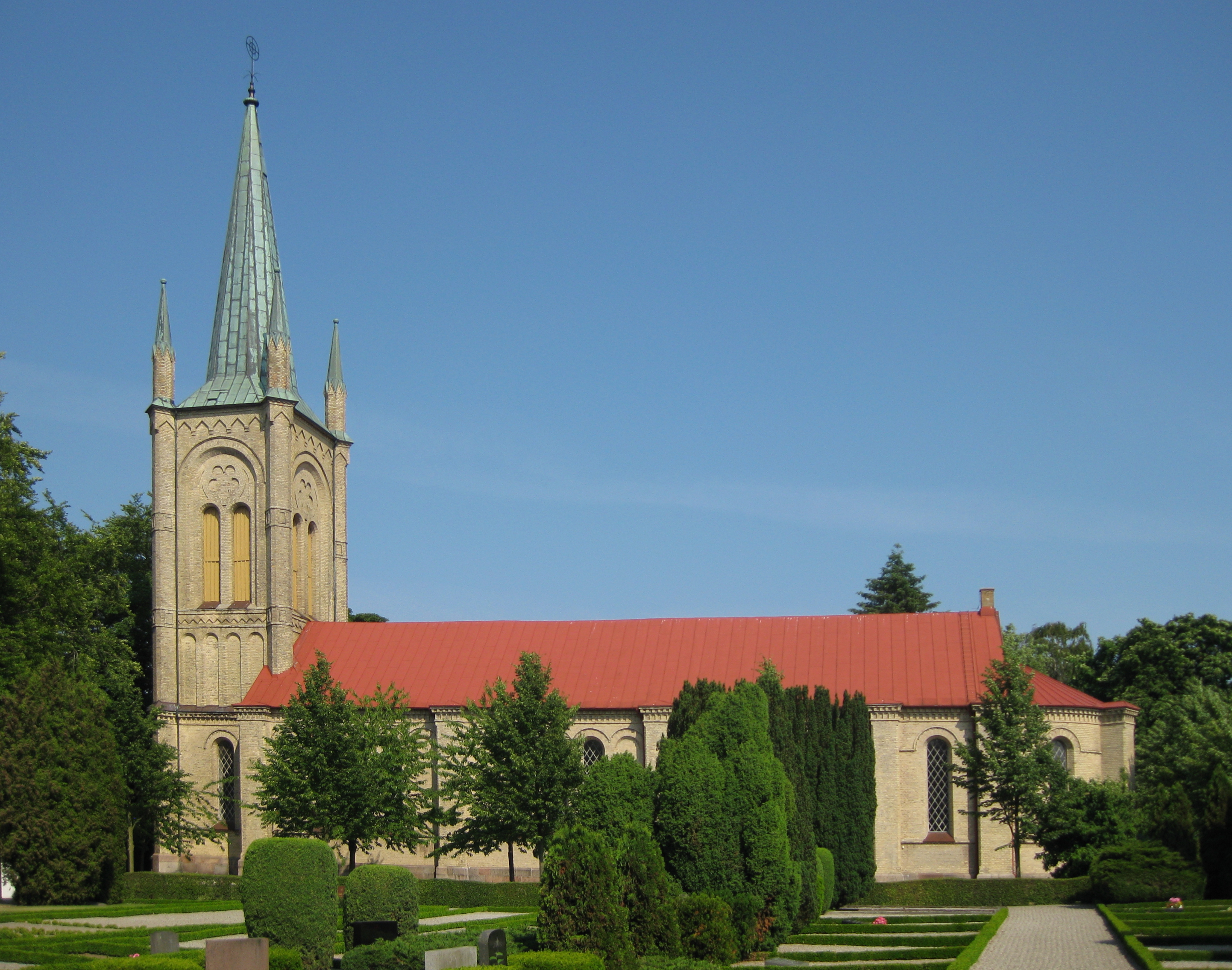 Hököpinge kyrka in Skåne, Sweden